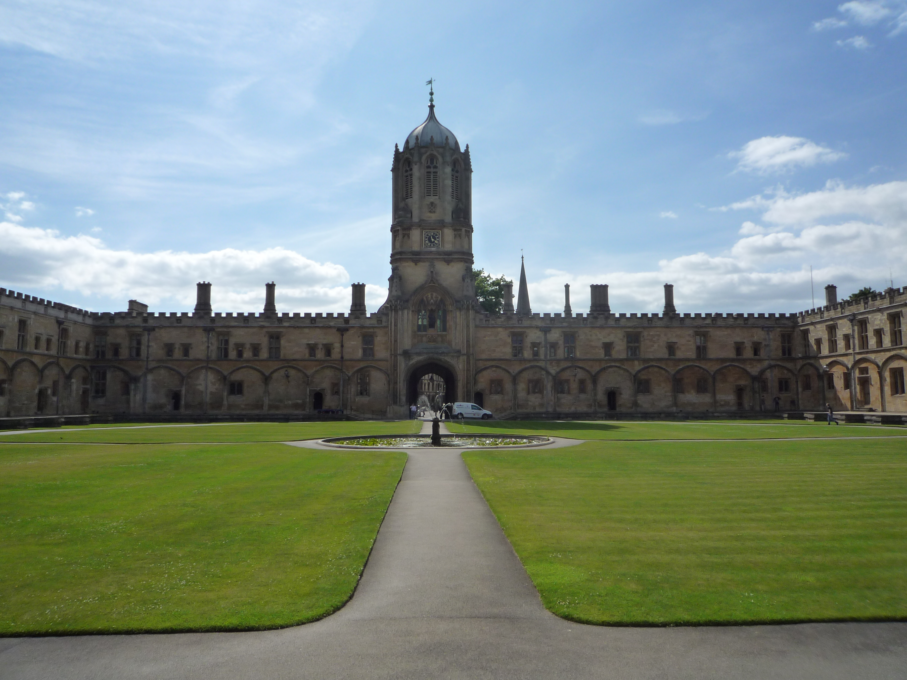 Christ Church, Oxford. The fantraceried vaulted ceiling in the tower housing the staircase and landing was used in two Harry Potter films: Harry Potter and the Philosopher's Stone and Harry Potter and the Chamber of Secrets. Also the Tudor architecture of the grand Dining Hall in Christ Church College was the inspiration for the set design of Hogwarts Great Hall. More information about Harry Potter film locations in Oxford can be found here.